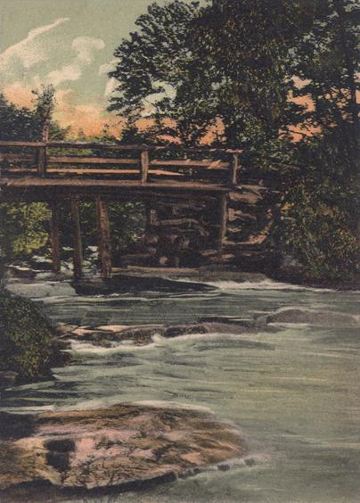 Mad River Bridge, Farmington, New Hampshire